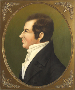 Former Ohio Governor Edward Tiffin, portrait from 1808-09.